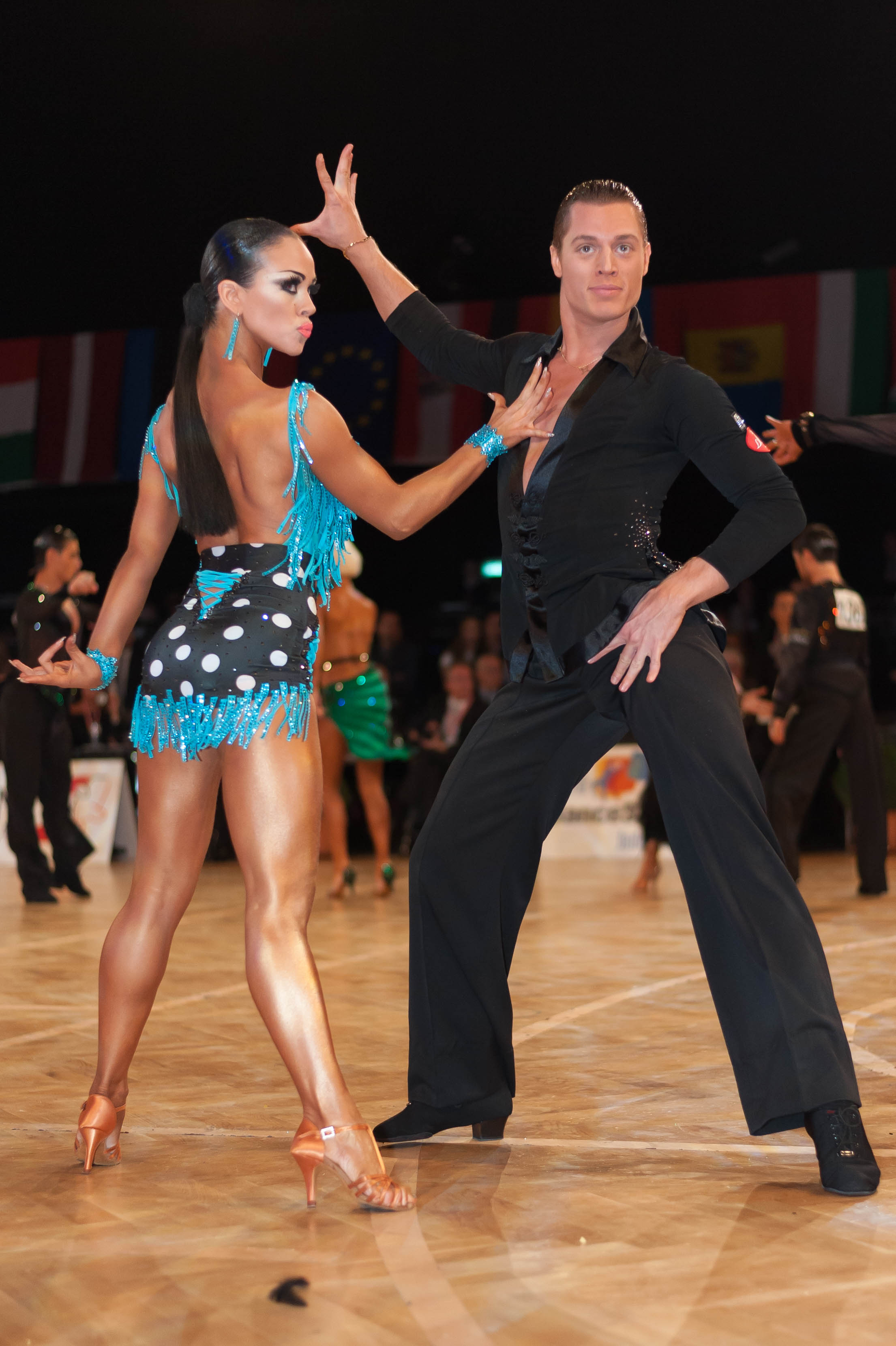 2015 WDSF World DanceSport Championship Latin, 2015-11-21, Schwechat, Lower Austria